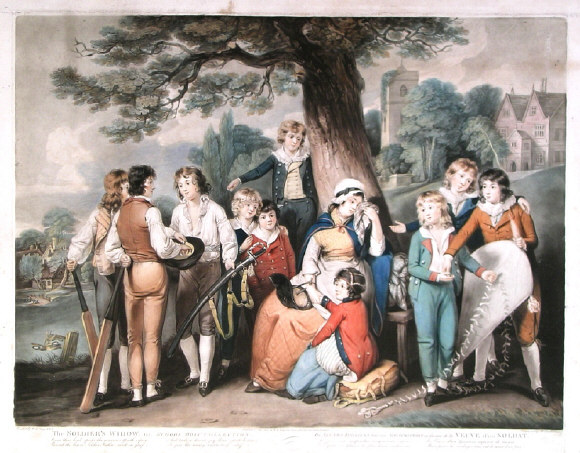 Mezzotint printed in colours, engraved by Robert Dunkarton and William Ward after W. R. Bigg, published London, 1800